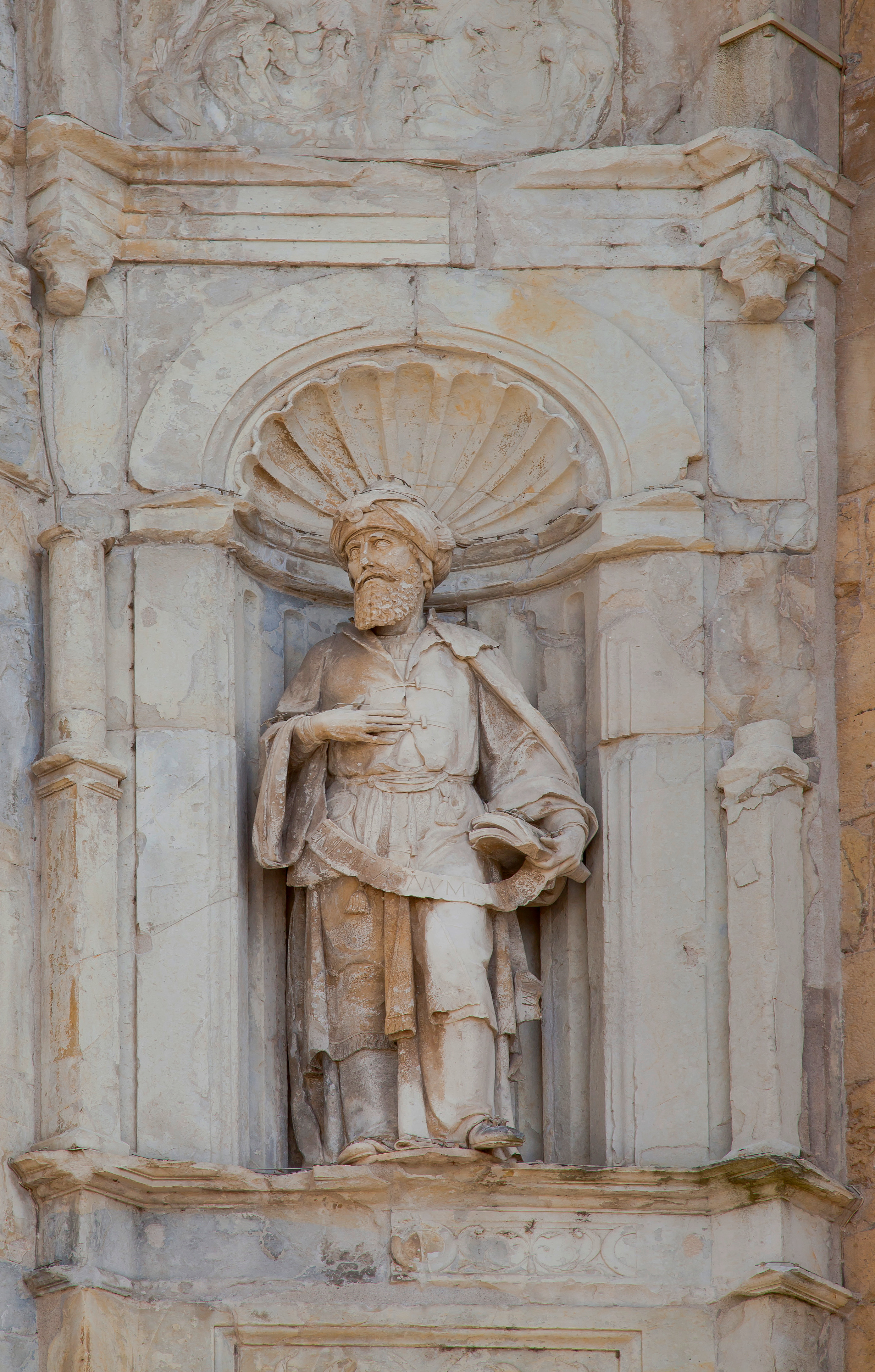 Statue at the Old Cathedral, Coimbra, Portugal